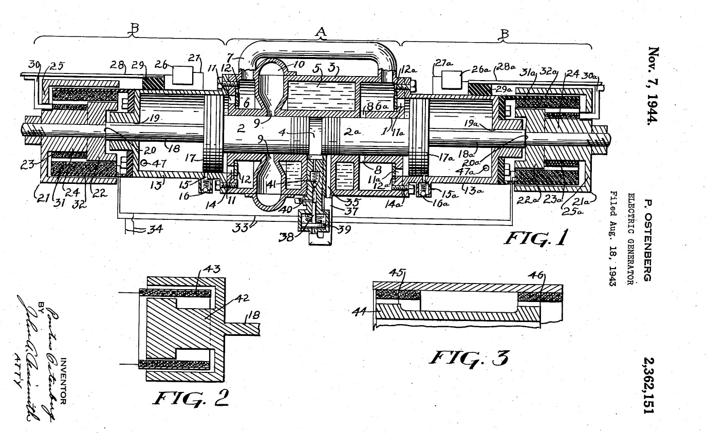 Patent of a free-piston linear generator concept from 1943